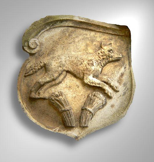 Schloss Wolfsburg - coat of arms of the family of Bartensleben (a wolf above two sheafs)